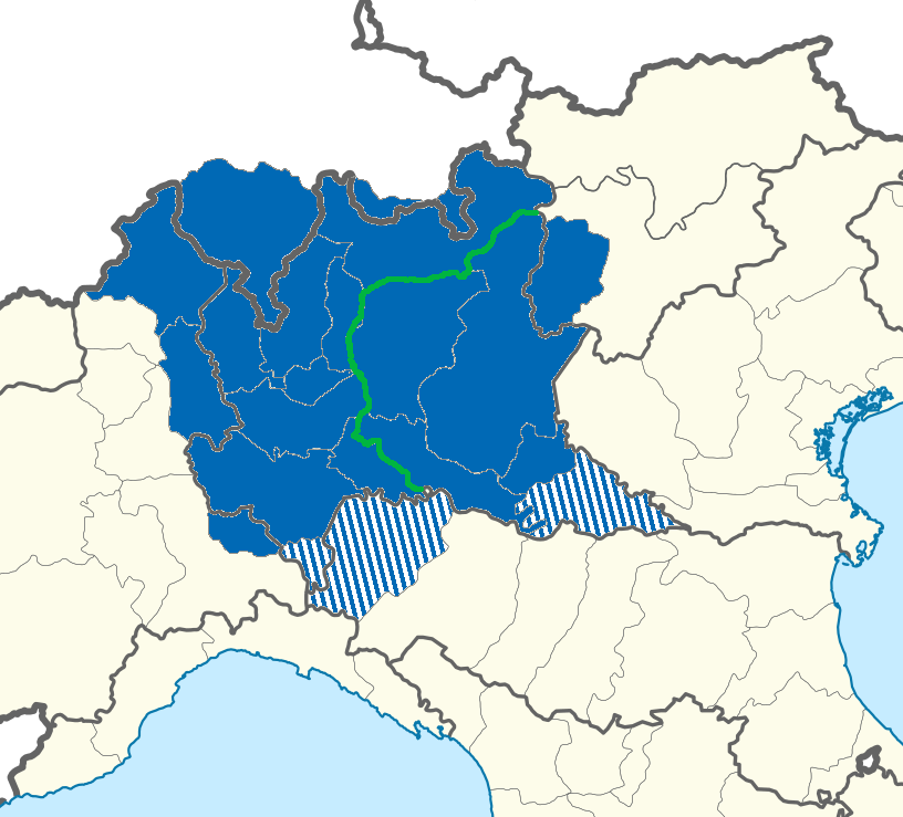 Lombard language.